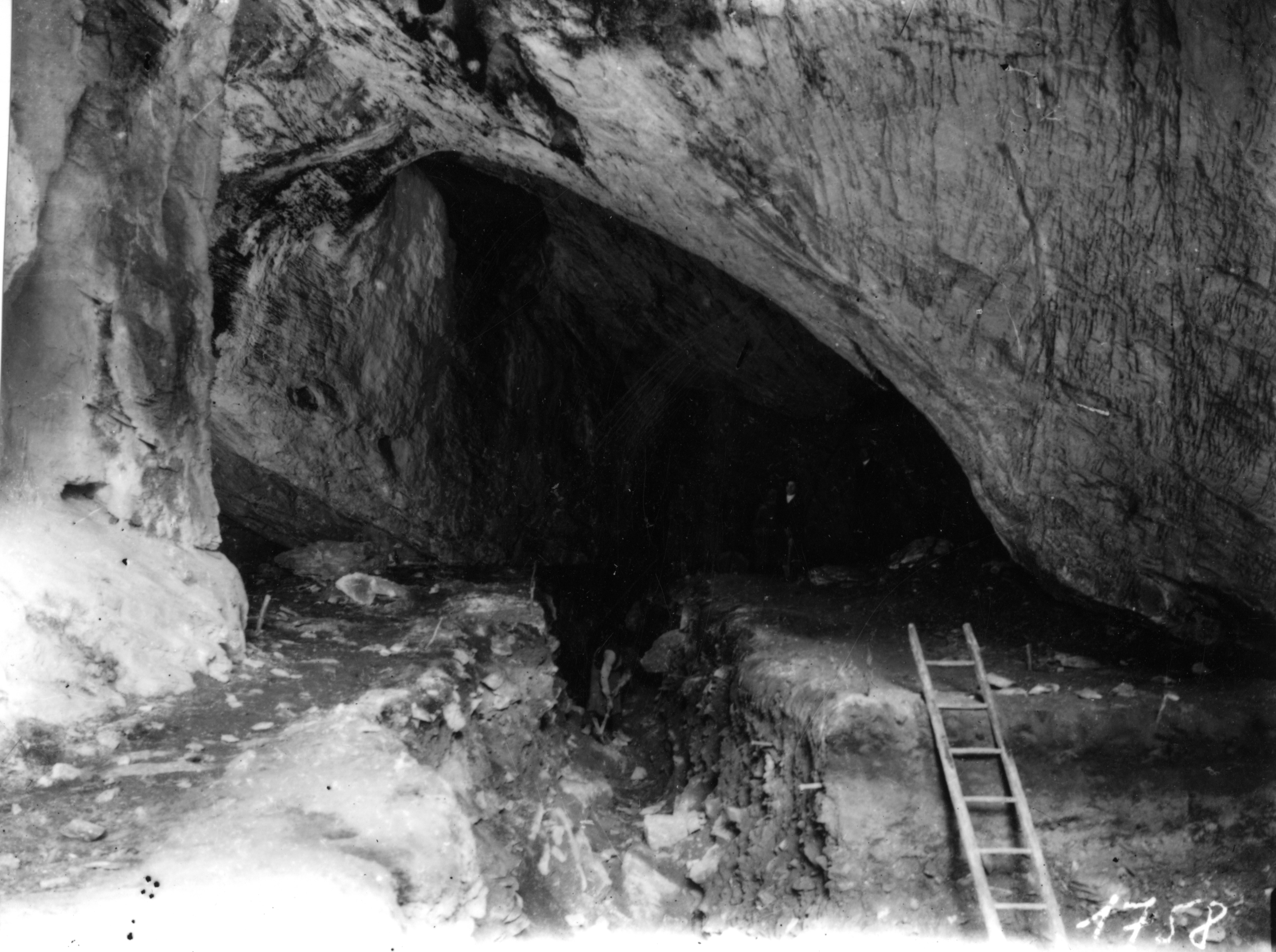 The Mackó Cave in 1912.